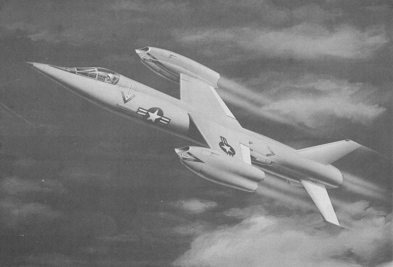 Artist's concept of the Bell D-188 ("XF-109") VTOL tiltjet fighter proposal for the United States Navy. From: Report No. D188A-946-005, “Navy VTOL Fighter Program: Progress Report No. 5,” Bell Aircraft Corporation, December 15, 1957, in the files of the National Archives II at College Park, MD, RG 72.